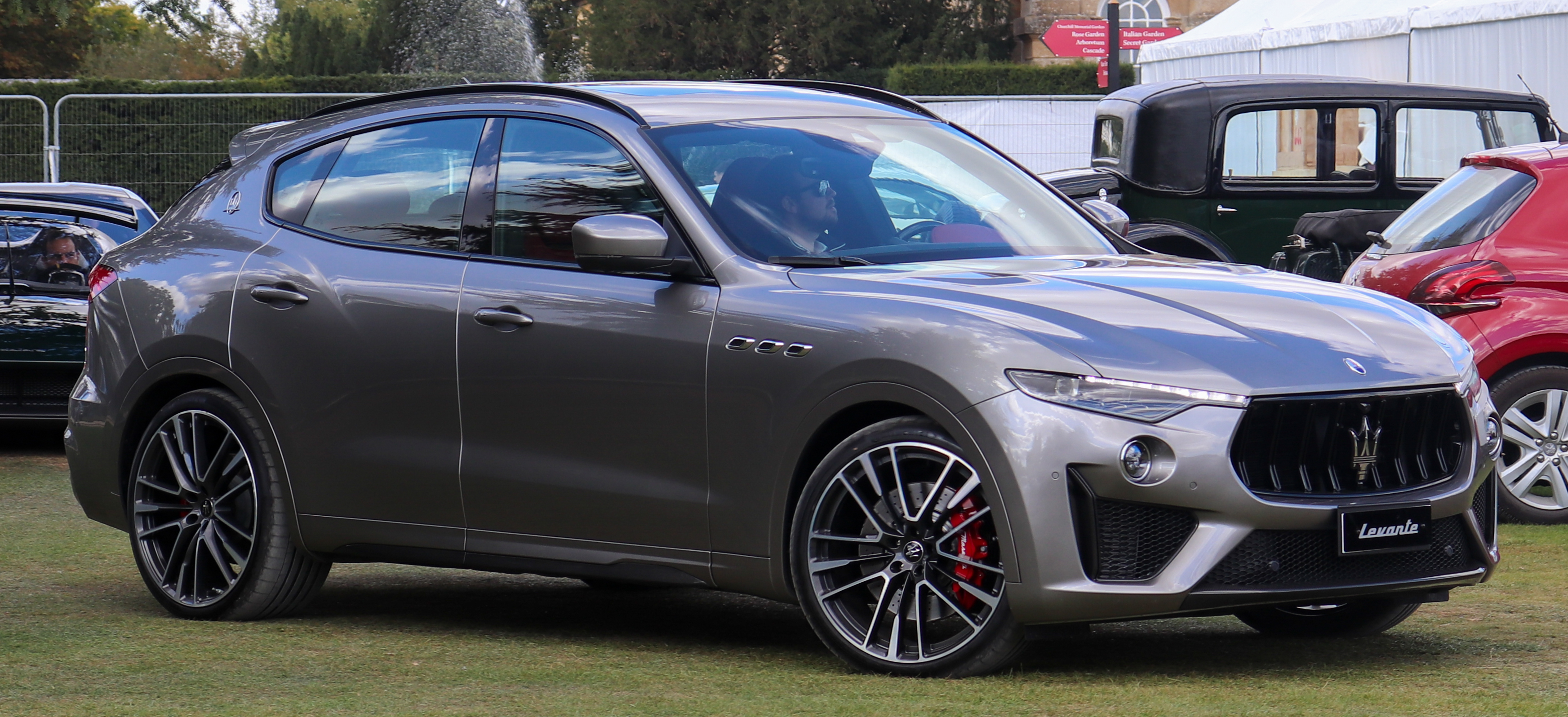 2019 Maserati Levante Trofeo V8 3.8 Taken at the Salon Privé Concours d'Elegance Classic Car Motor Show 2019, Blenheim Palace